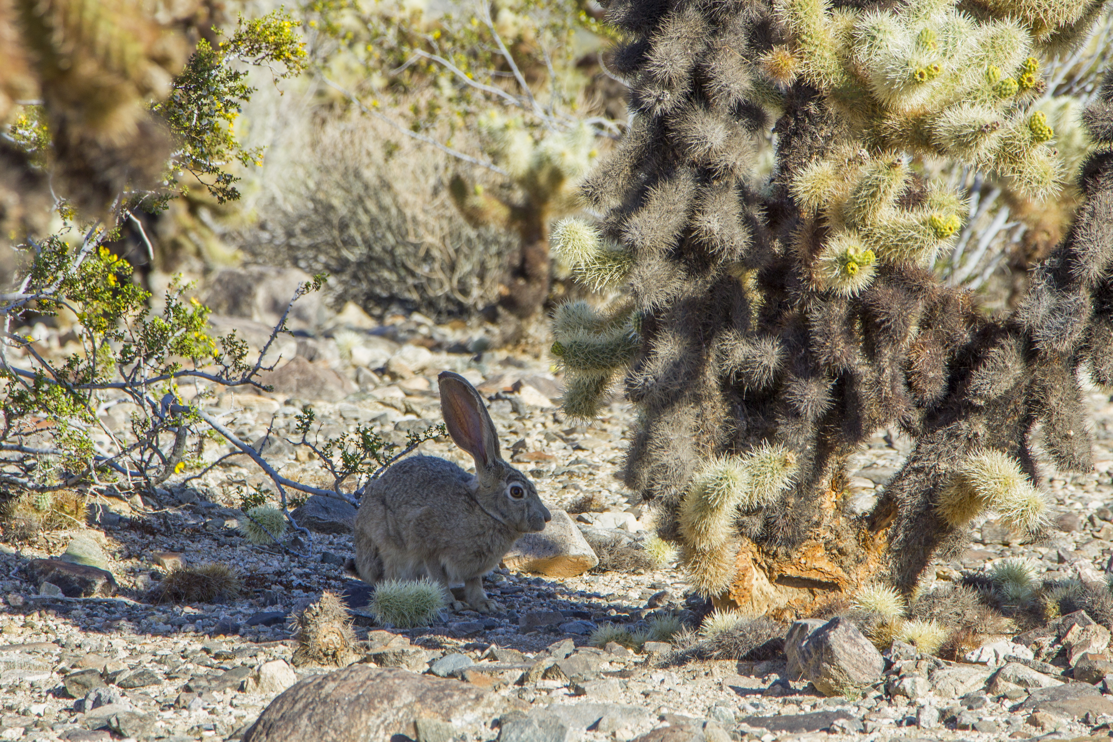 Black-tailed jackrabbit (Lepus californicus) resting, Joshua Tree National Park. NPS/Brad Sutton